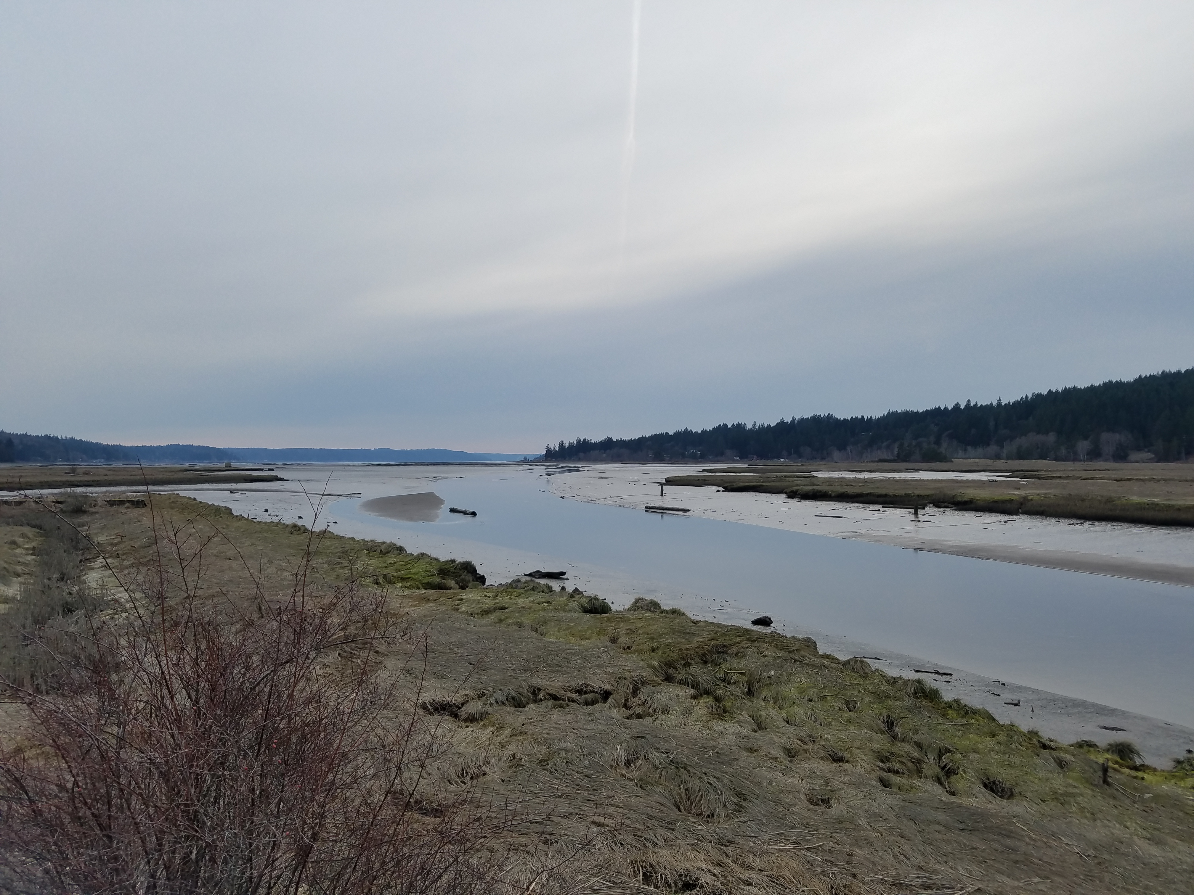 Mouth of the Union River in Washington state, USA, with the beginning of the Hood Canal (Lynch Cove) in the distance.